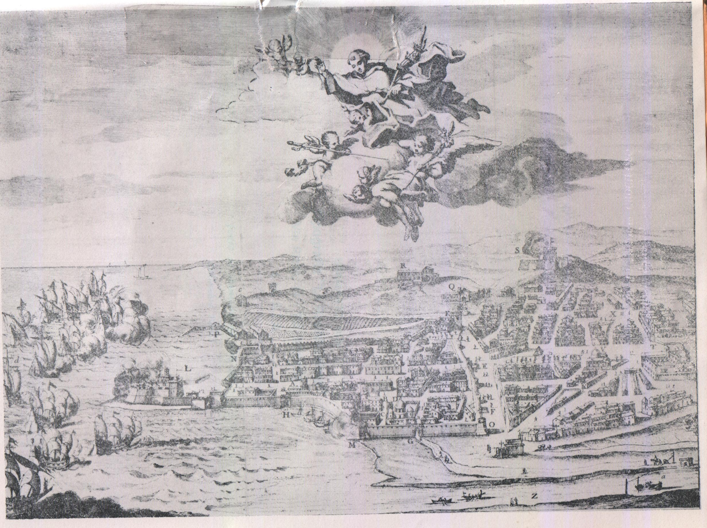 Engraving with Licata, Sicily, protected by Saint Angelo of Jerusalem at the top. Drawing by Sebastiano Conca, 1765.